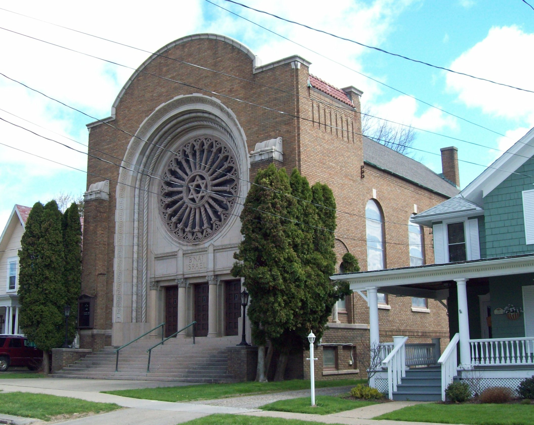 Temple B'Nai Israel, Olean, NY, April 2012